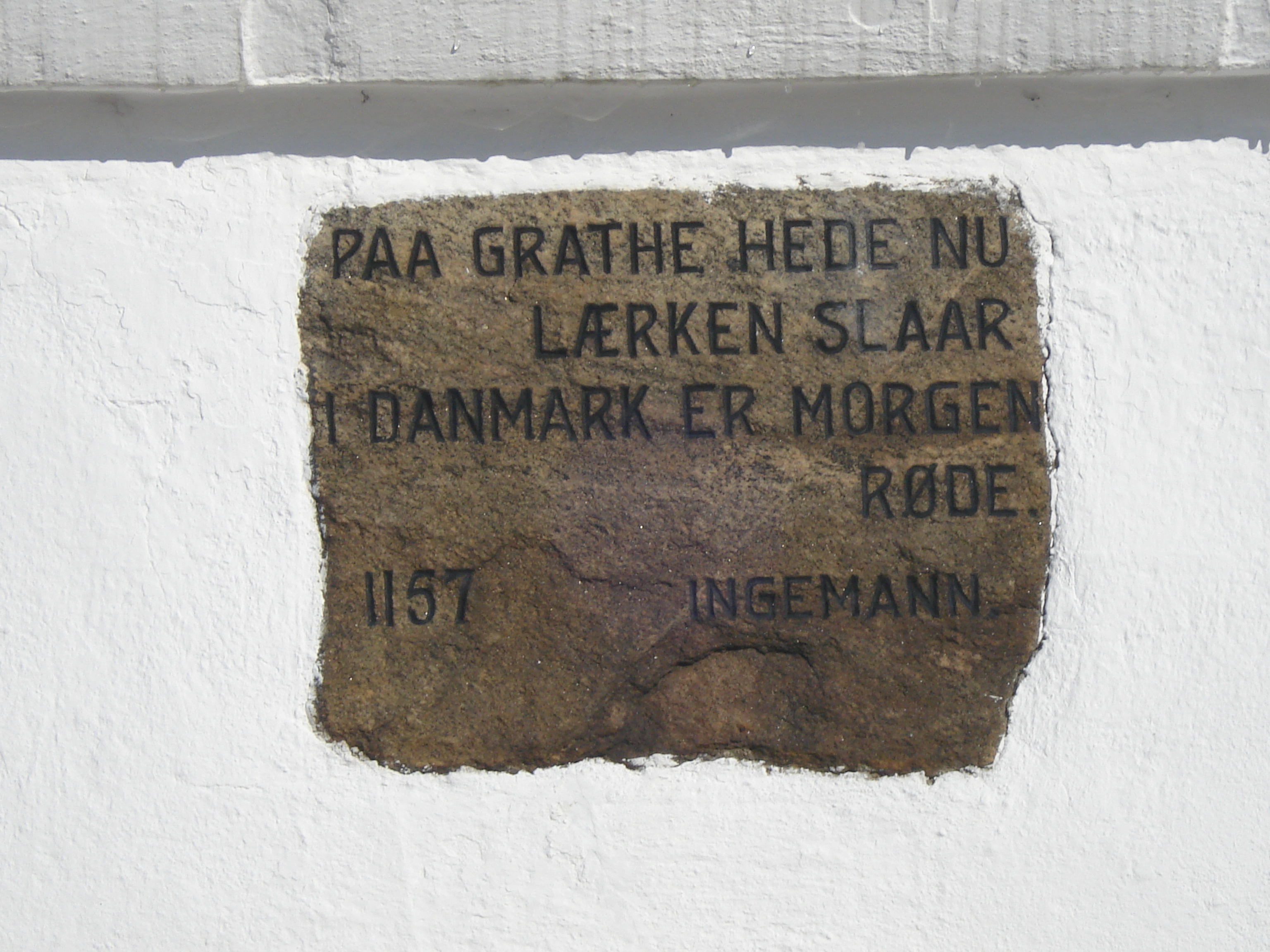 Grathe Kirke (Church), Jutland, Denmark. Memorial plate on the tower for the battle at Grathe Hede (Grathe Moor) in 1157